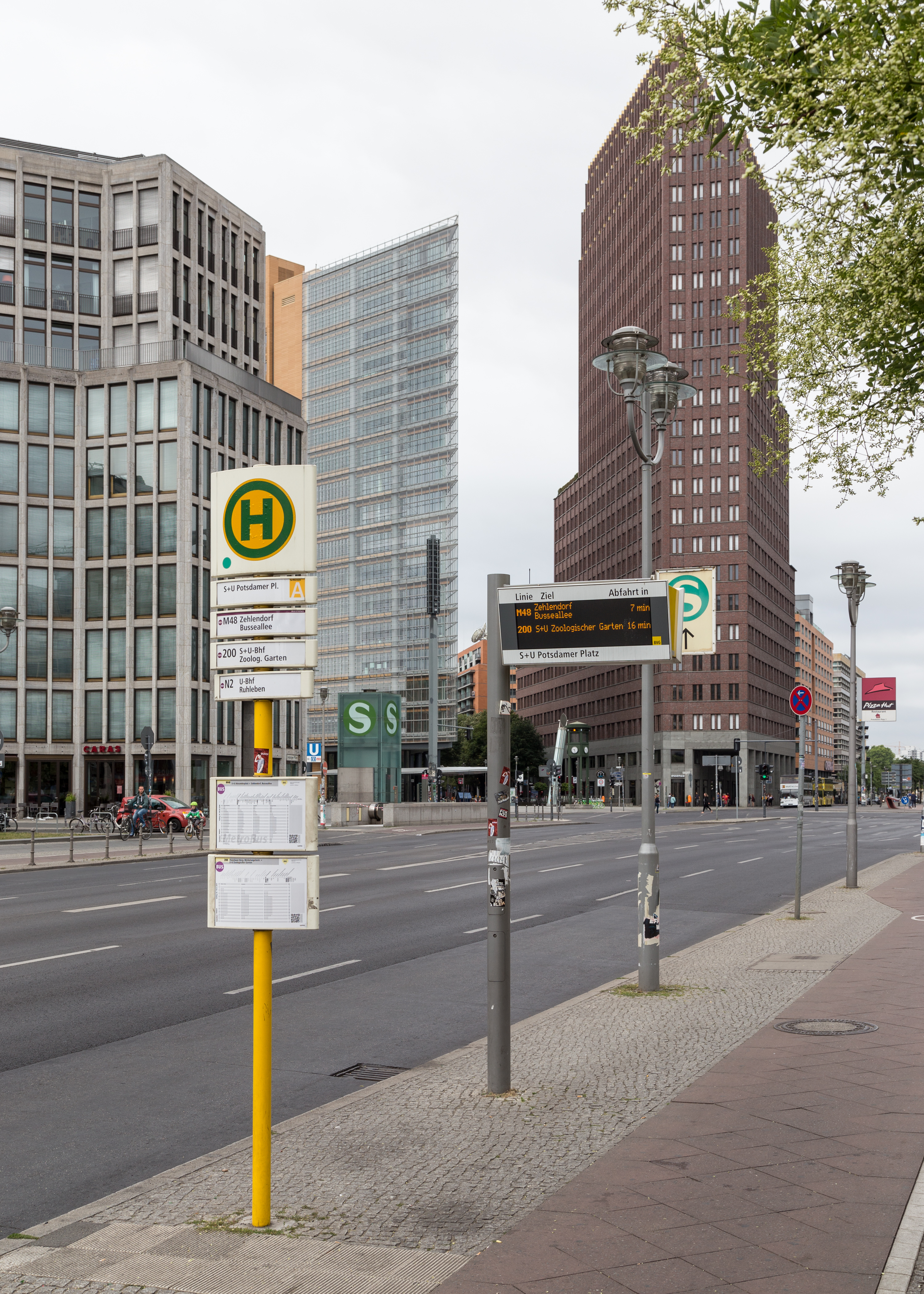 Berlin: Bus Stop "S+U Potsdamer Platz" with the Kollhoff Tower in the background.